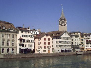 St. Peter church in Zurich (Switzerland) Category:Images of Switzerland